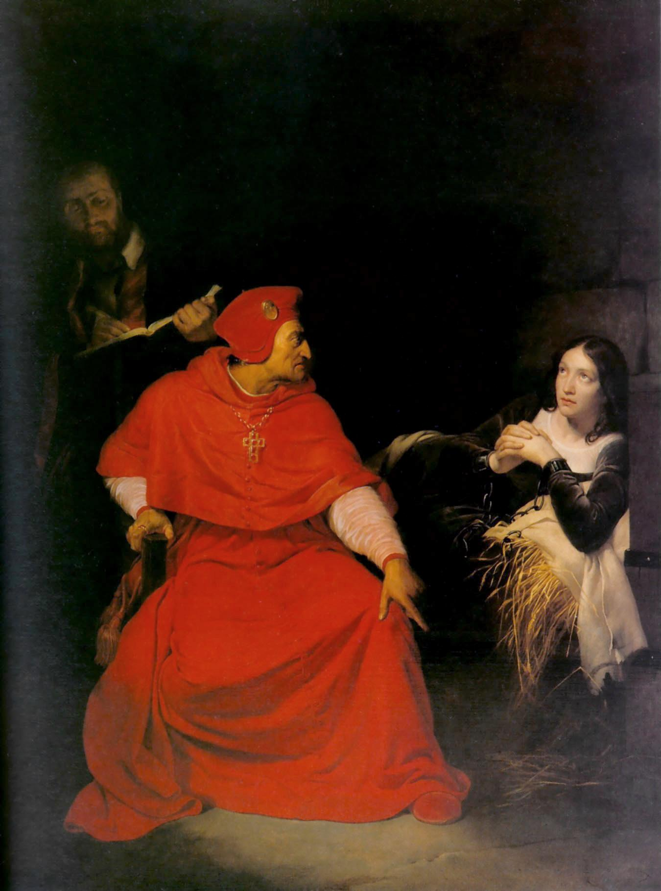 Historical painting by Paul Delaroche showing Cardinal Henry Beaufort interrogating Joan of Arc in prison.